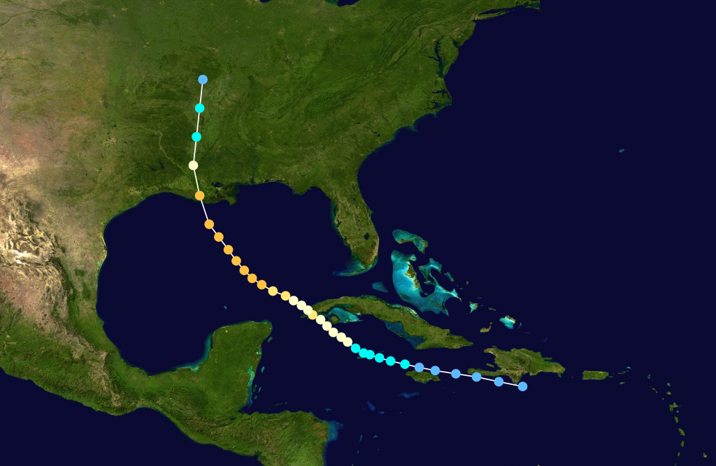 1909 Atlantic hurricane 8 track.png track. Uses the color scheme from the Saffir-Simpson Hurricane Scale.